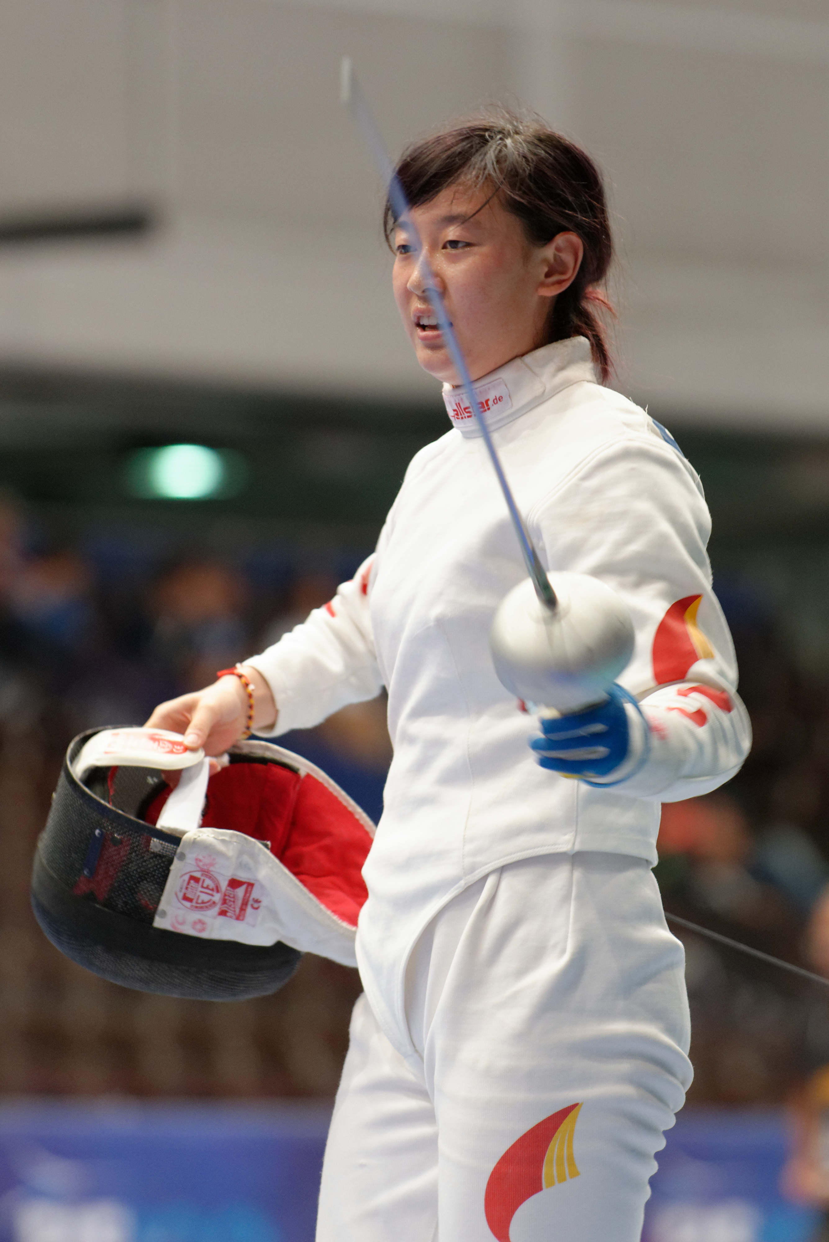 China's Sun Yiwen during her bout against Italy's Bianca Del Carretto in the women's épée T64 at the 2013 World Fencing Championships 2013 at Syma Hall in Budapest, 8 August 2013.